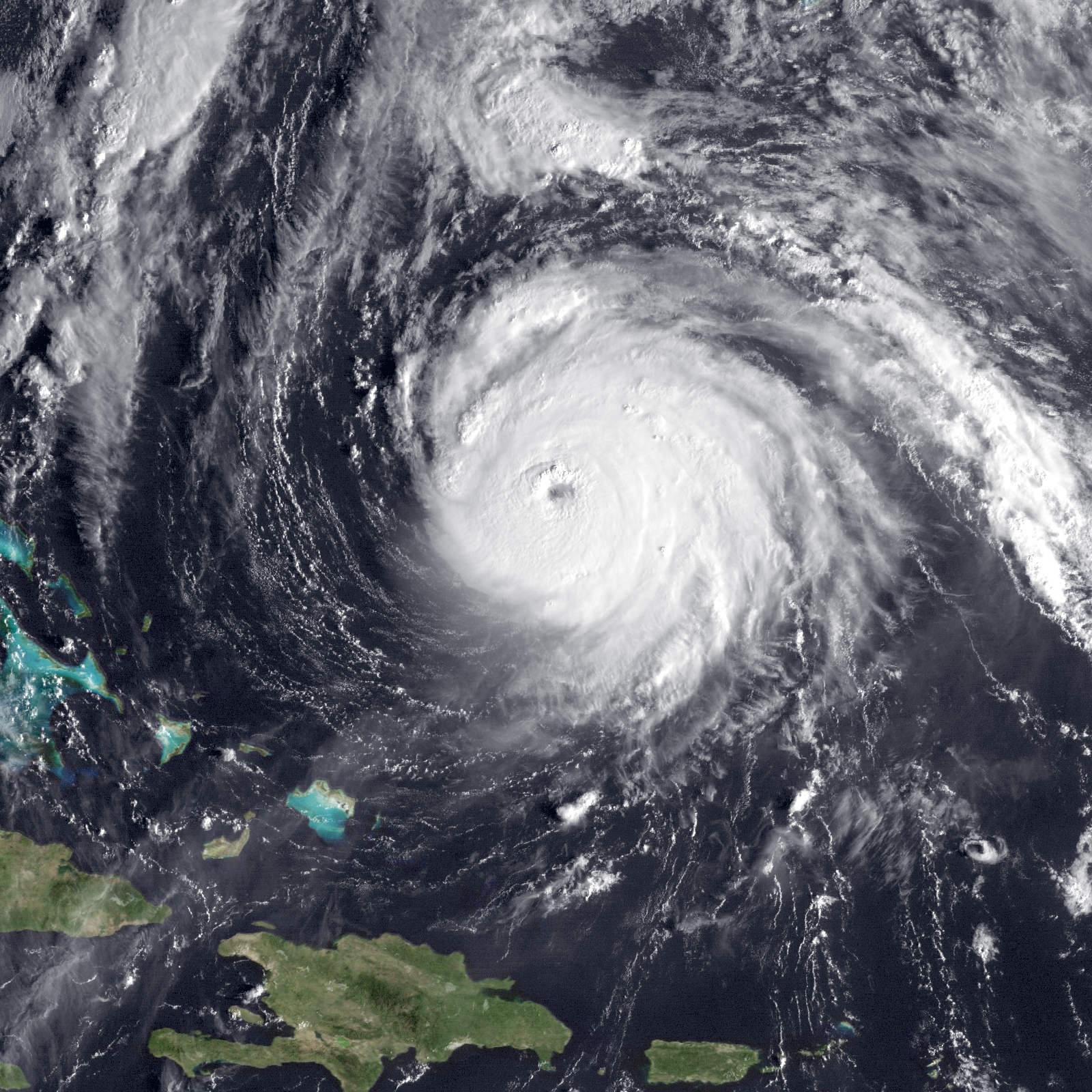 Hurricane Gonzalo at peak intensity north of the Great Antilles on October 16